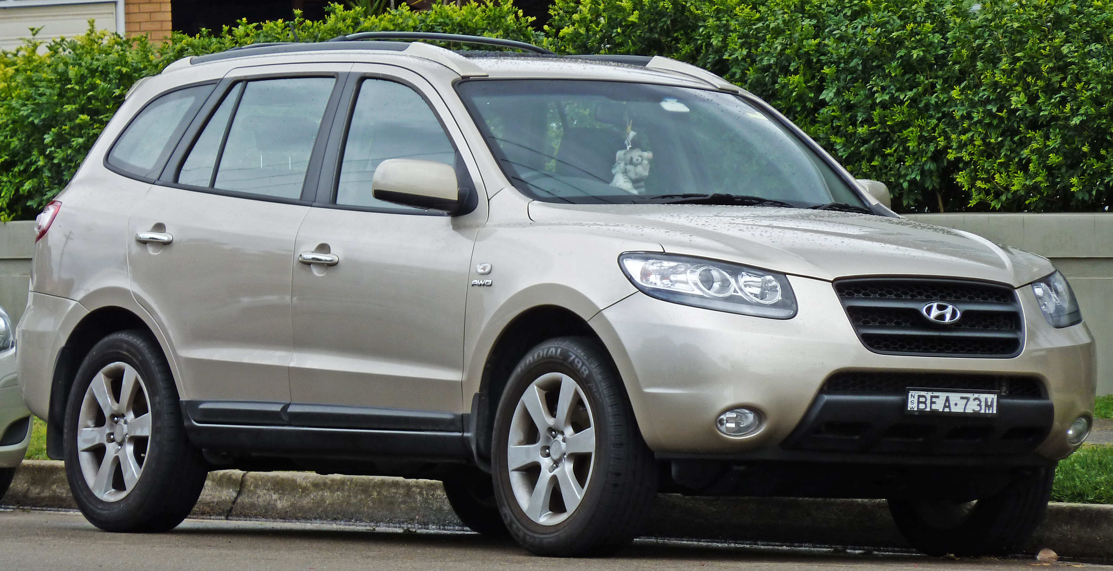 2006–2007 Hyundai Santa Fe (CM) Elite wagon. Photographed in Sandringham, New South Wales, Australia.